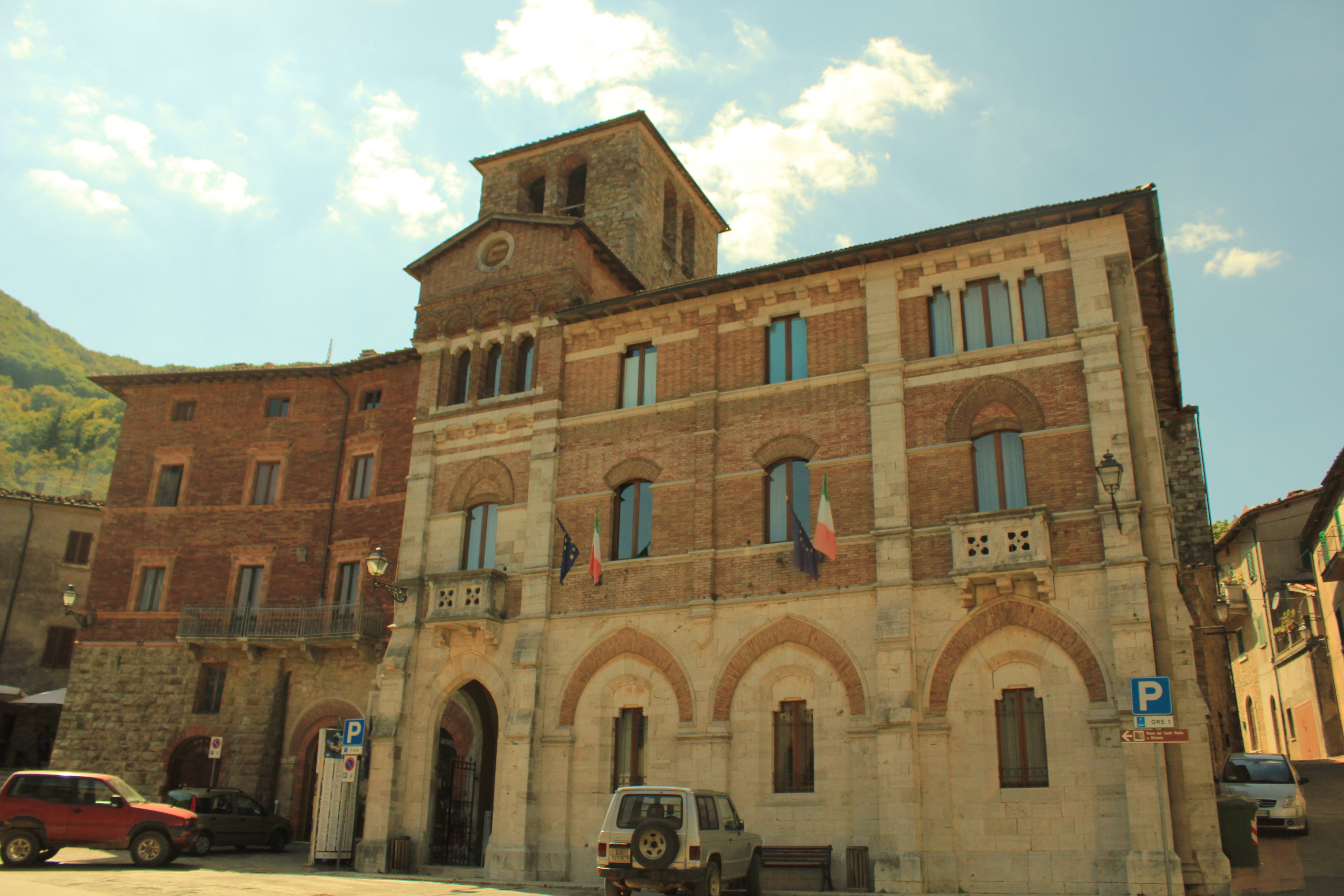 Town Hall and Palazzo Papi Matii in Montieri, Grosseto.